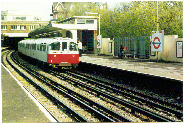 Wot? No Commuters? Definitely Off-Peak time at Ealing Common station.